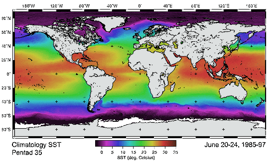 An image of Global Sea Surface Temperature acquired from the NOAA/ AVHRR satellite. Source: NASA